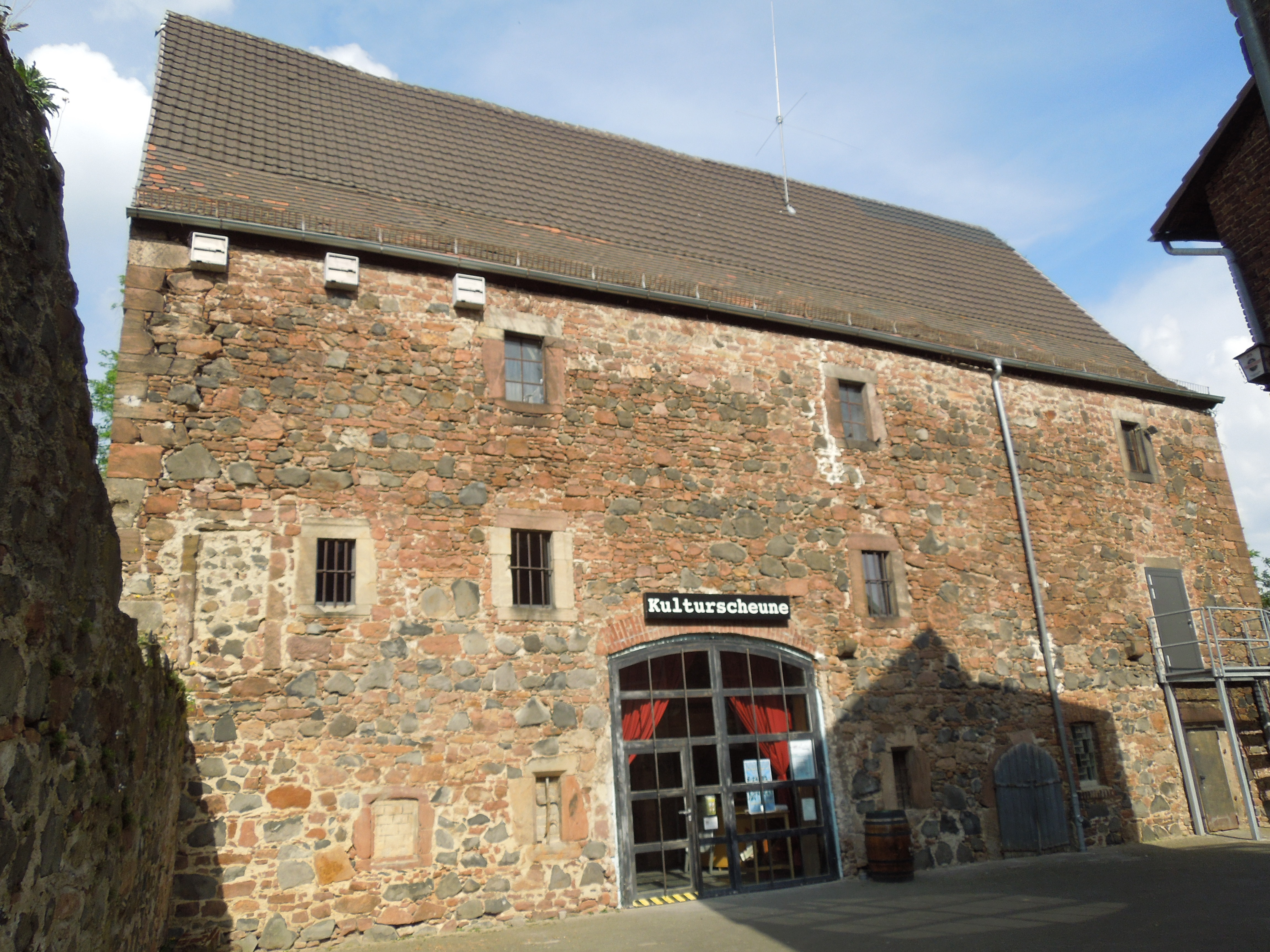 Fritzlar: the former tithing barn of the Teutonic Knights, today used for concerts, exhibitions, etc.